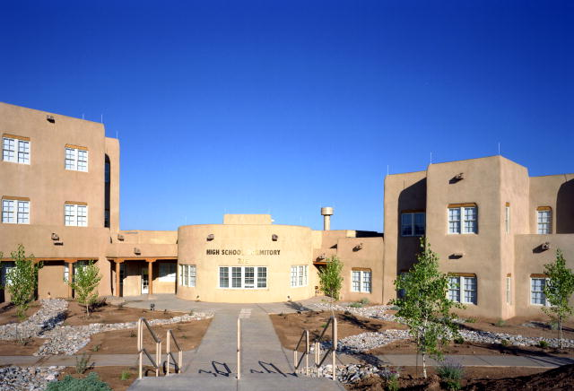 An image of Santa Fe Indian School in New Mexico.